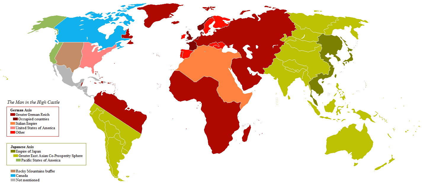 Alternate history world map of Philip K. Dick's The Man In The High Castle